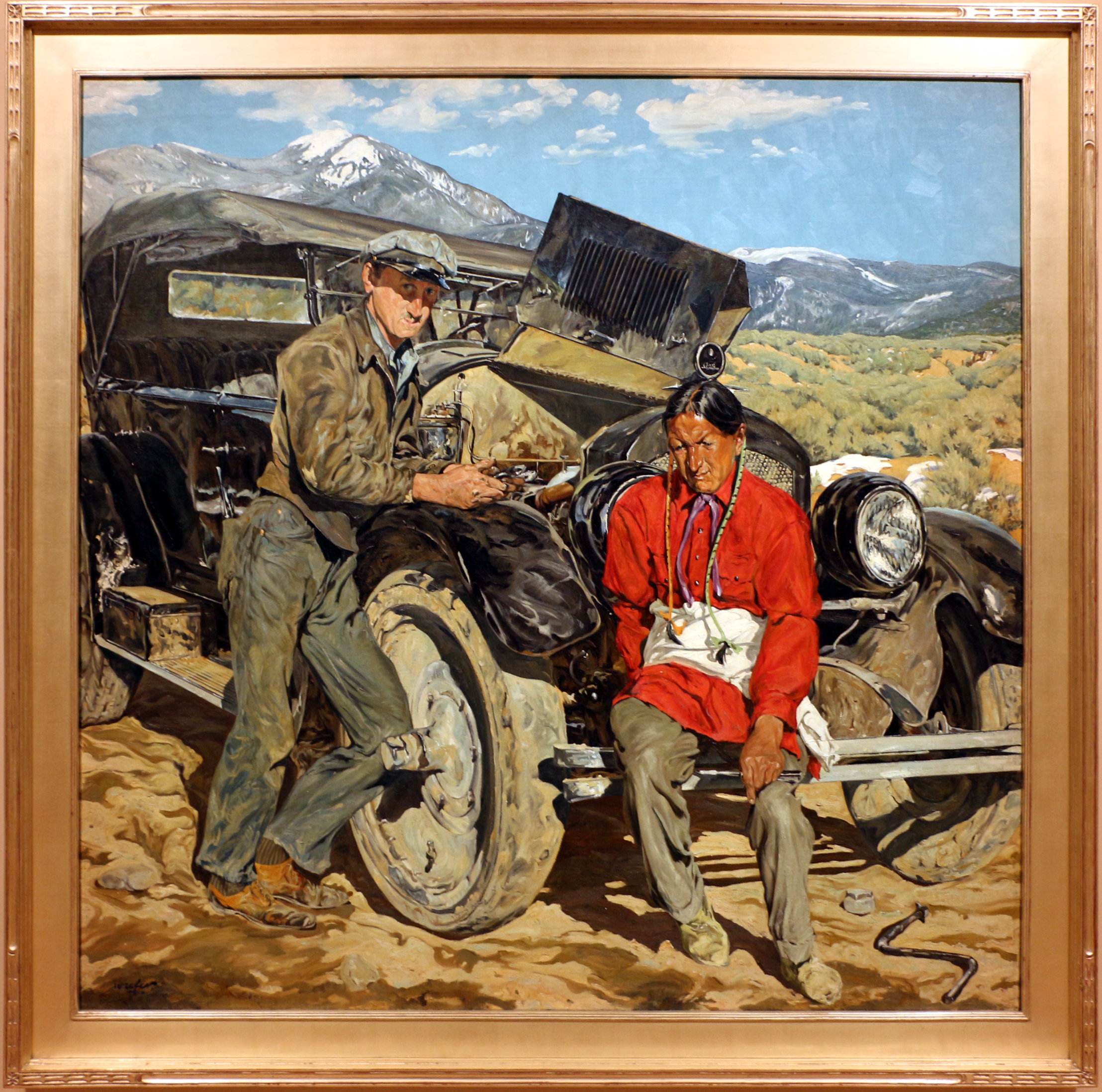 Bob Abbott and His Assistant by Walter Ufer, 1935, oil on canvas, 50¼ × 50½ in. (127.6 × 128.3 cm.), Speed Art Museum